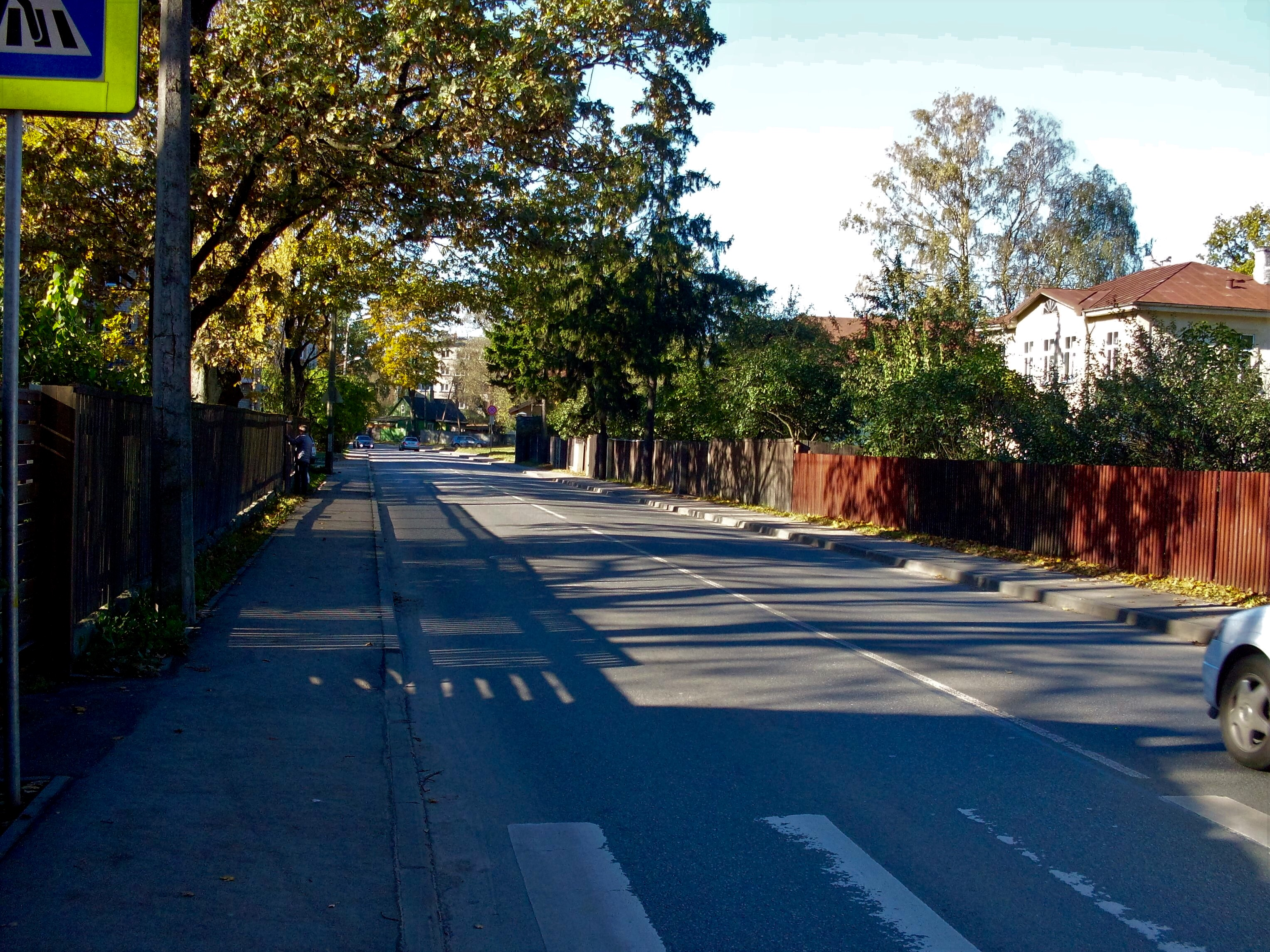 Riga, Stērstu street.